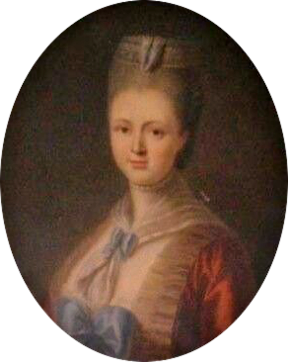 Portrait of Louise Élisabeth de Croÿ.